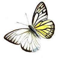 Upper- (left) and underwing